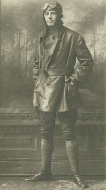 Image of Ralph Cooper Hutchison (1898-1966) as a U.S. Naval Aviation cadet during World War I